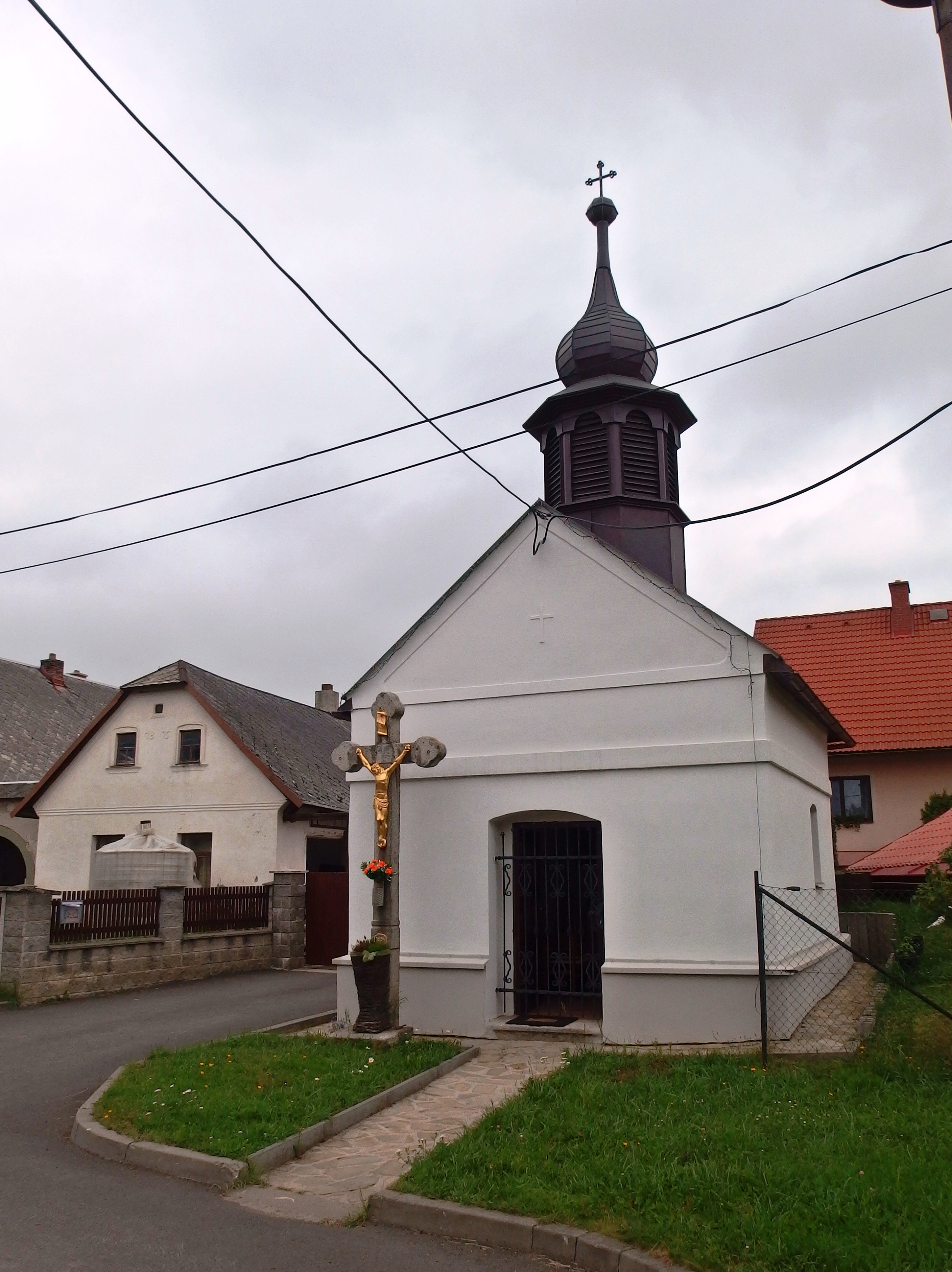 Počítky, Žďár nad Sázavou District, Czechia.